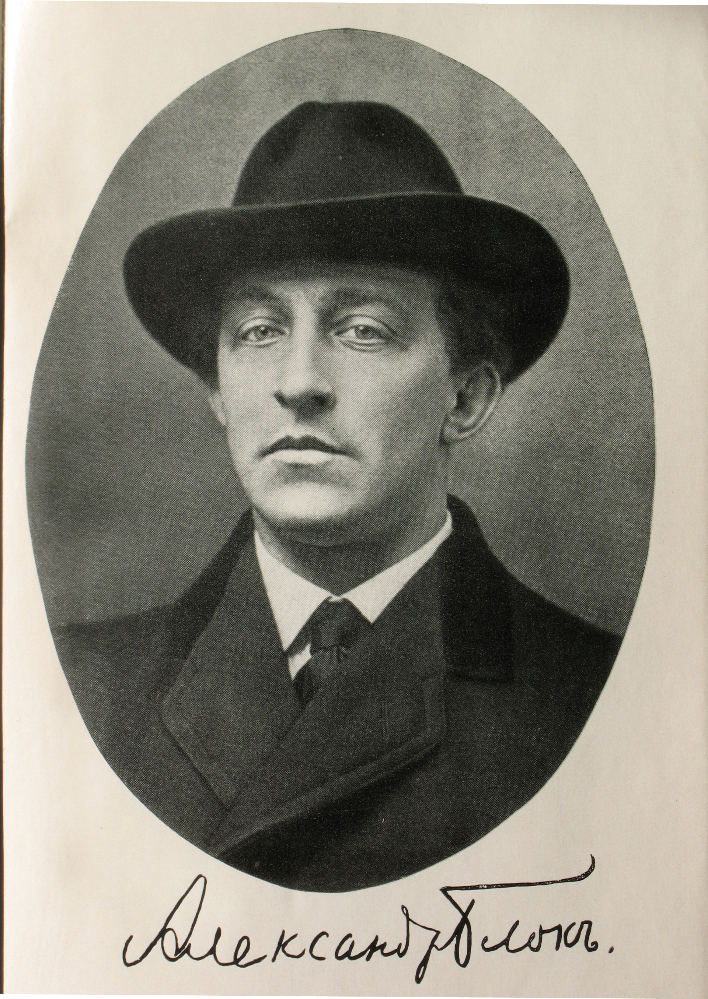 Russian poet Alexander Blok (dead in 1921). Paspartu.